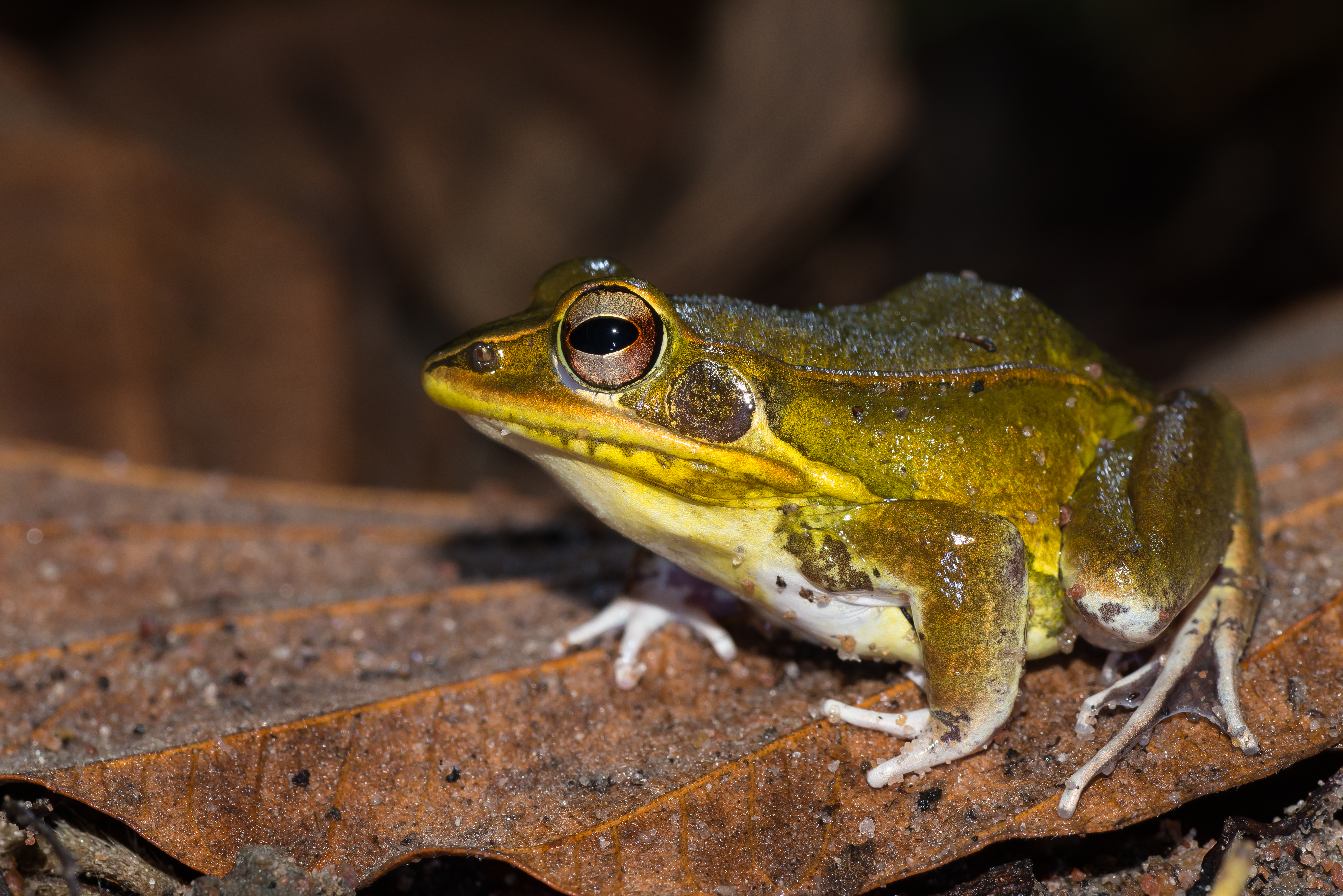 Pelophylax lateralis, kokarit frog, Huai Kha Khaeng Wildlife Sanctuary Photo by Thai National Parks, [1].